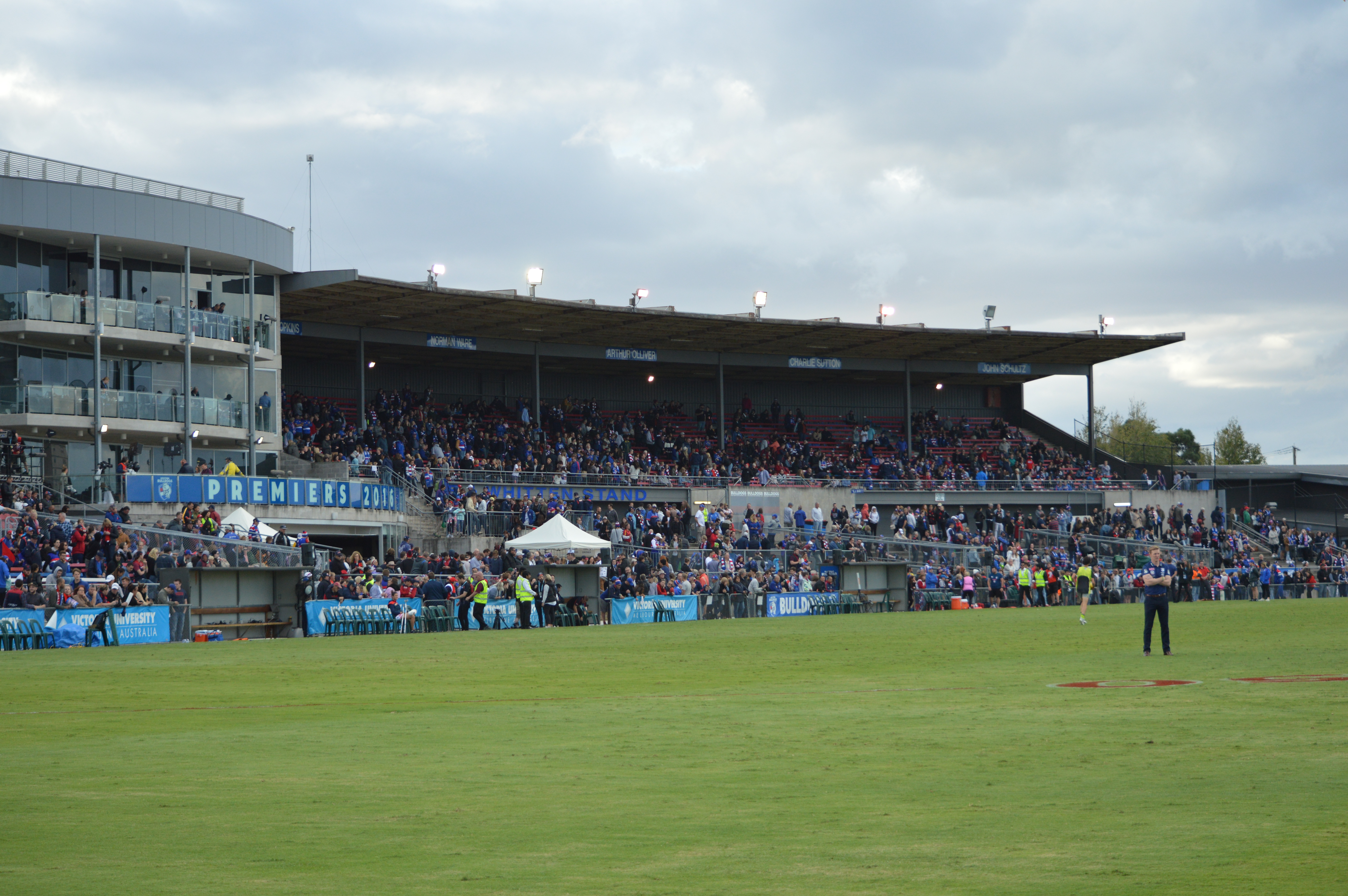 Whitten Oval in February 2017